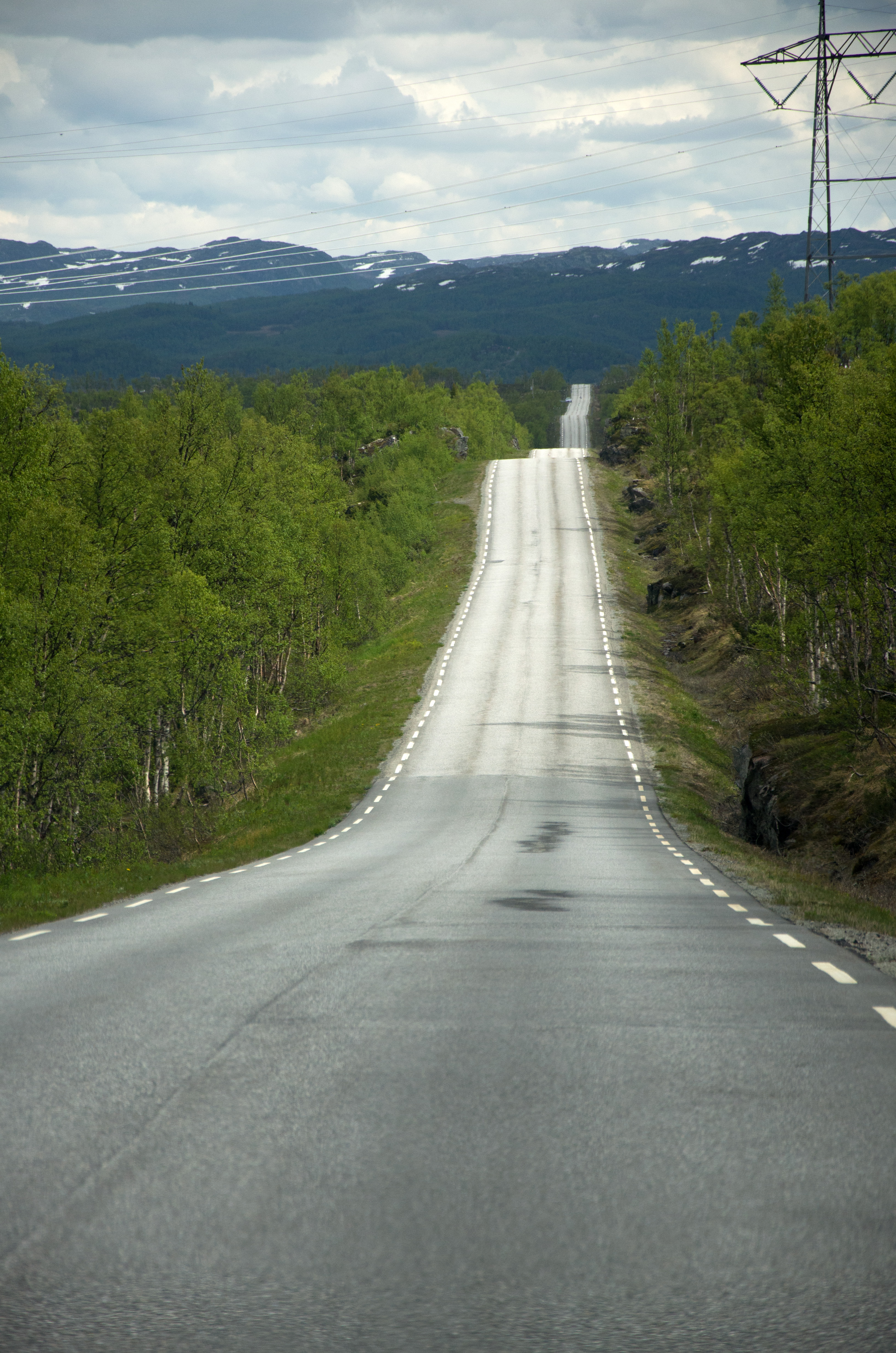 County road 37 in Vinje, Telemark, Norway